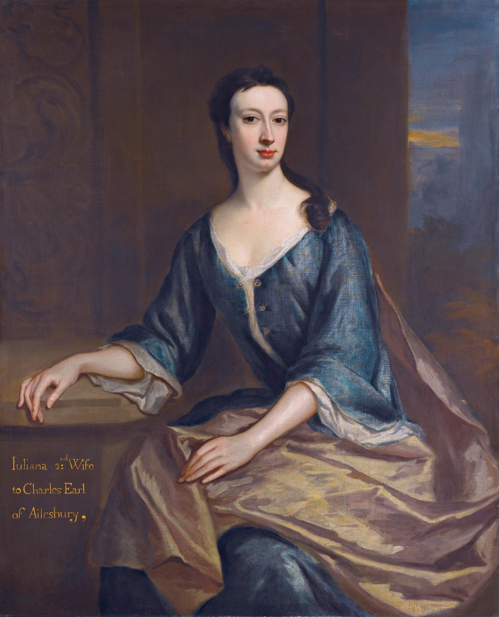 Juliana Boyle, Countess of Ailesbury (d. 1739)